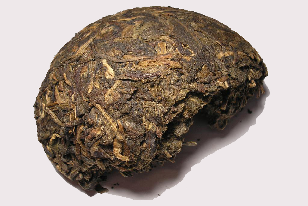 Lincang Factory tea. Raw.